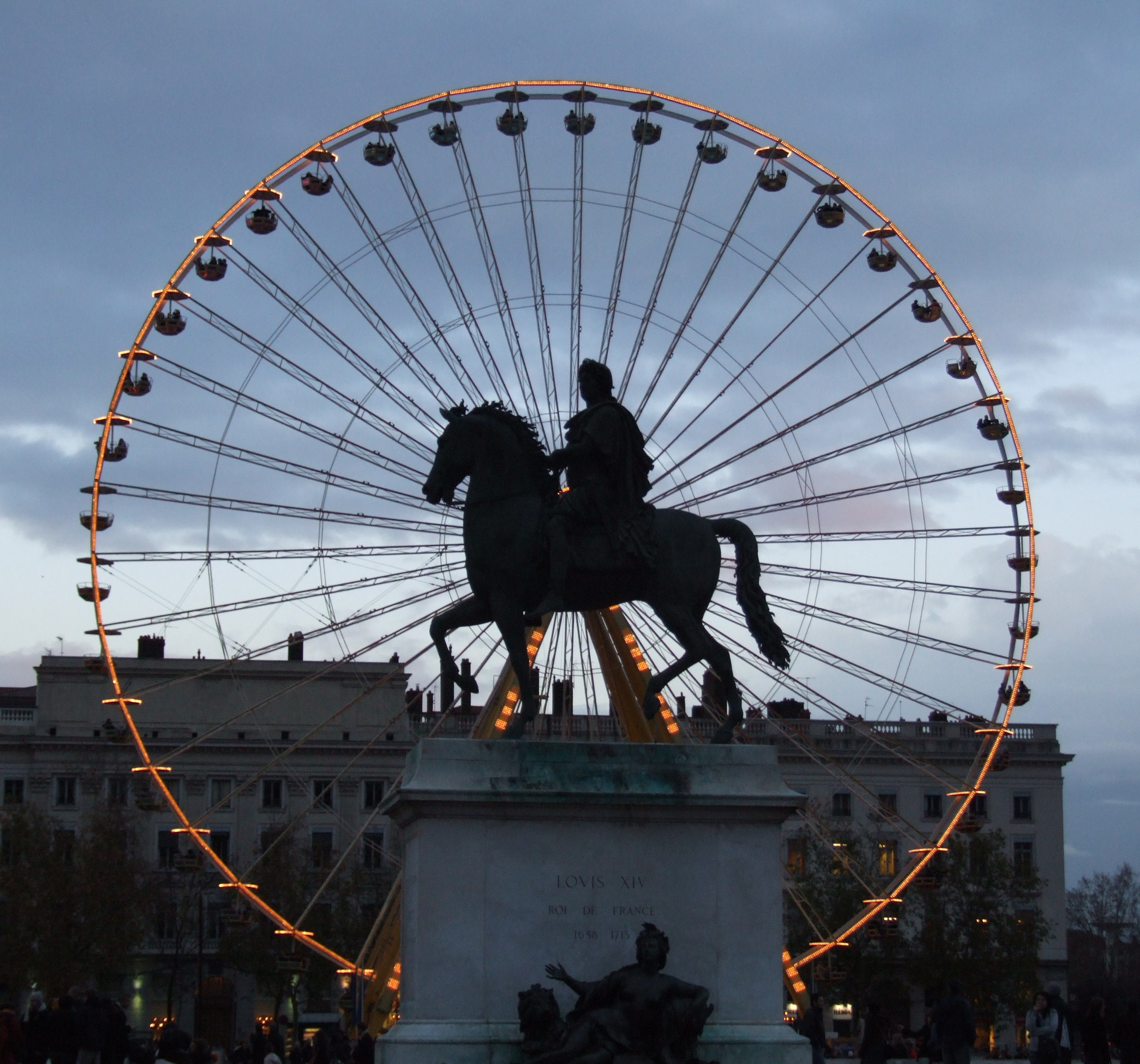 Lyon, FRANCE